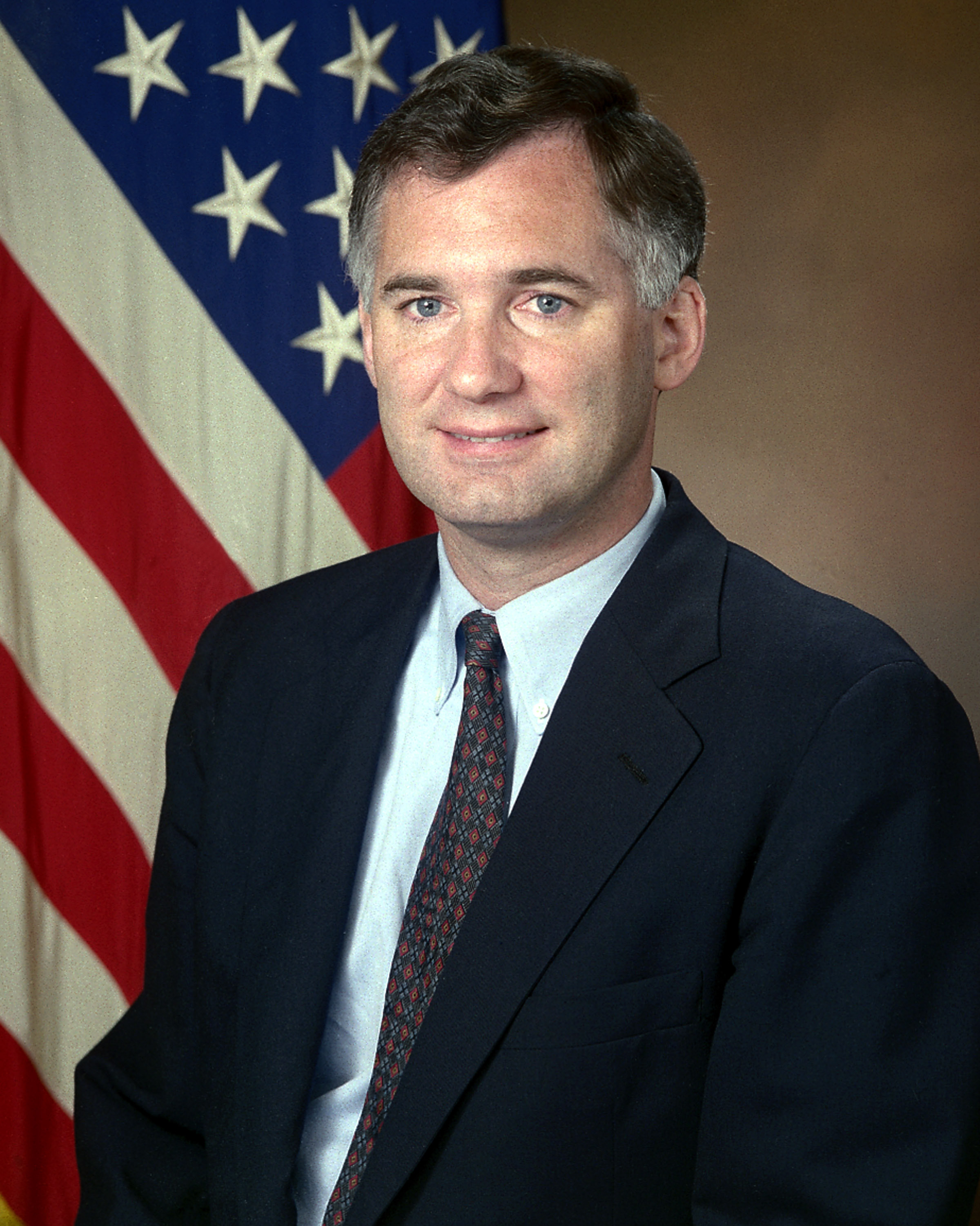 Photo of William J. Lynn III, Former Under Secretary of Defense (Comptroller)